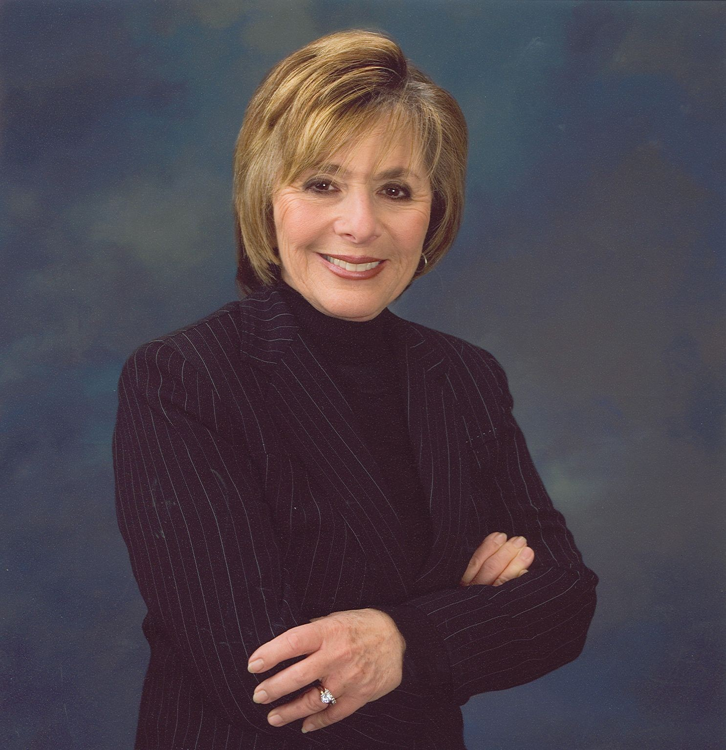 Barbara Boxer, member of the United States Senate from California